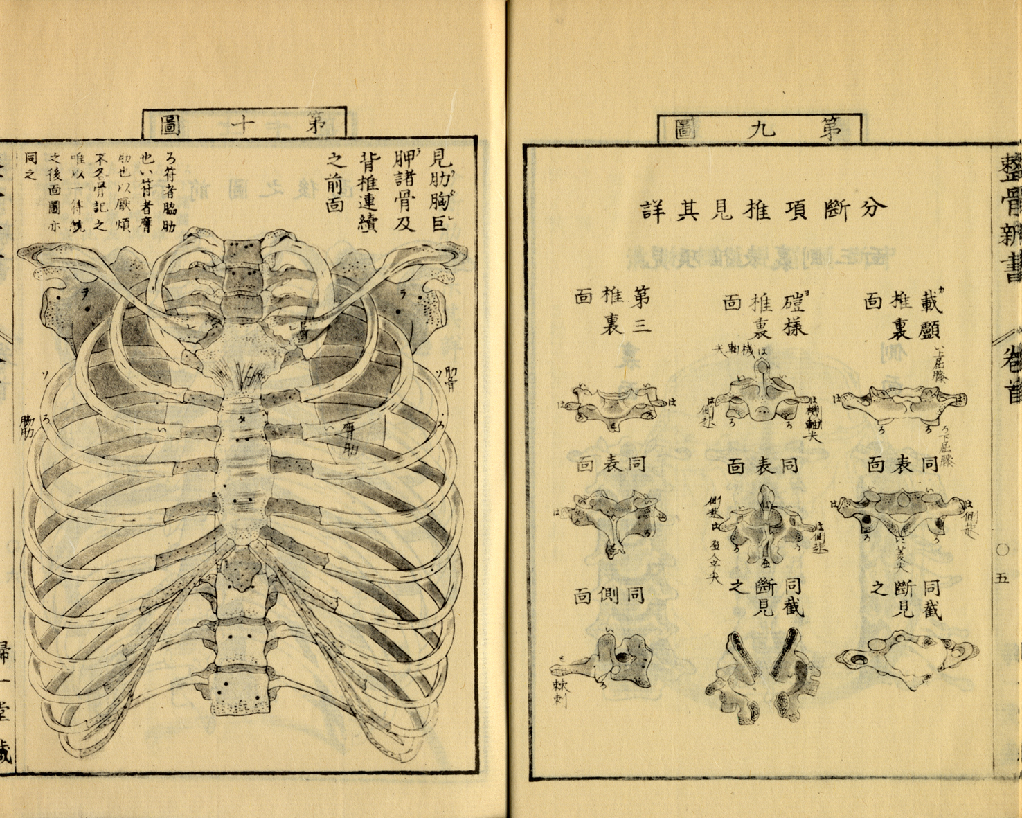 Illustration of bones in the book Seikotsu shinsho (New Book of Osteopathy) published by the Japanese pioneer Kagami Bunken (1755-1819), a traditional physician who based his research on actual dissections.